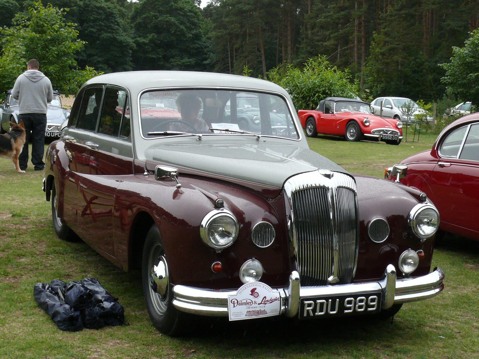 1955 Daimler Regency 2 saloon [RDU 989] Daimler & Lanchester Owners Club, International Rally, Queen's Birthday weekend, Sandringham, Norfolk Sunday 12 June 2011 3493 cc reg RDU 989 chassis 88331 engine 82029 Source of information